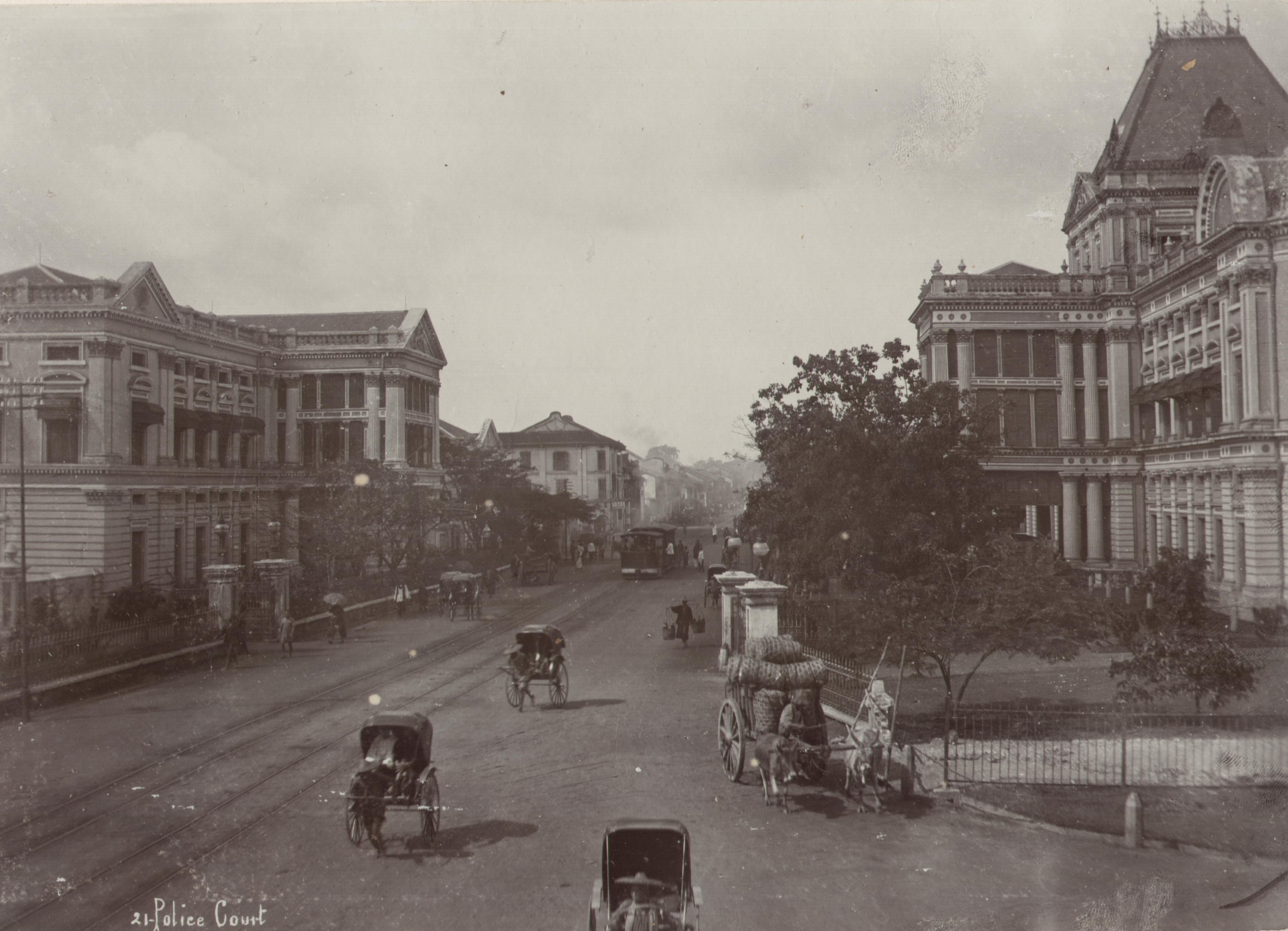 Police Court in Singapore.